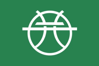 Flag of Geisei Kochi